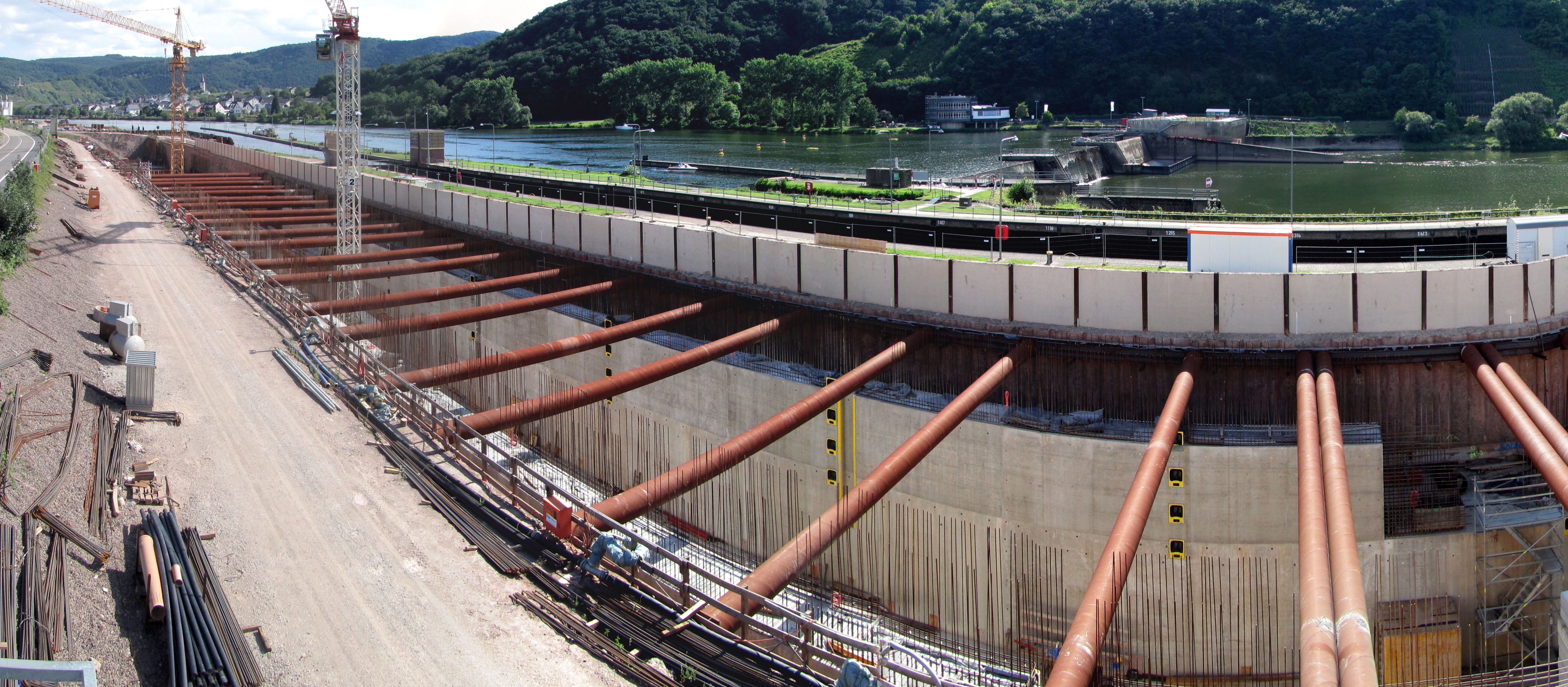 Construction of the second sluice chamber of the Moselle barrage nearby Fankel